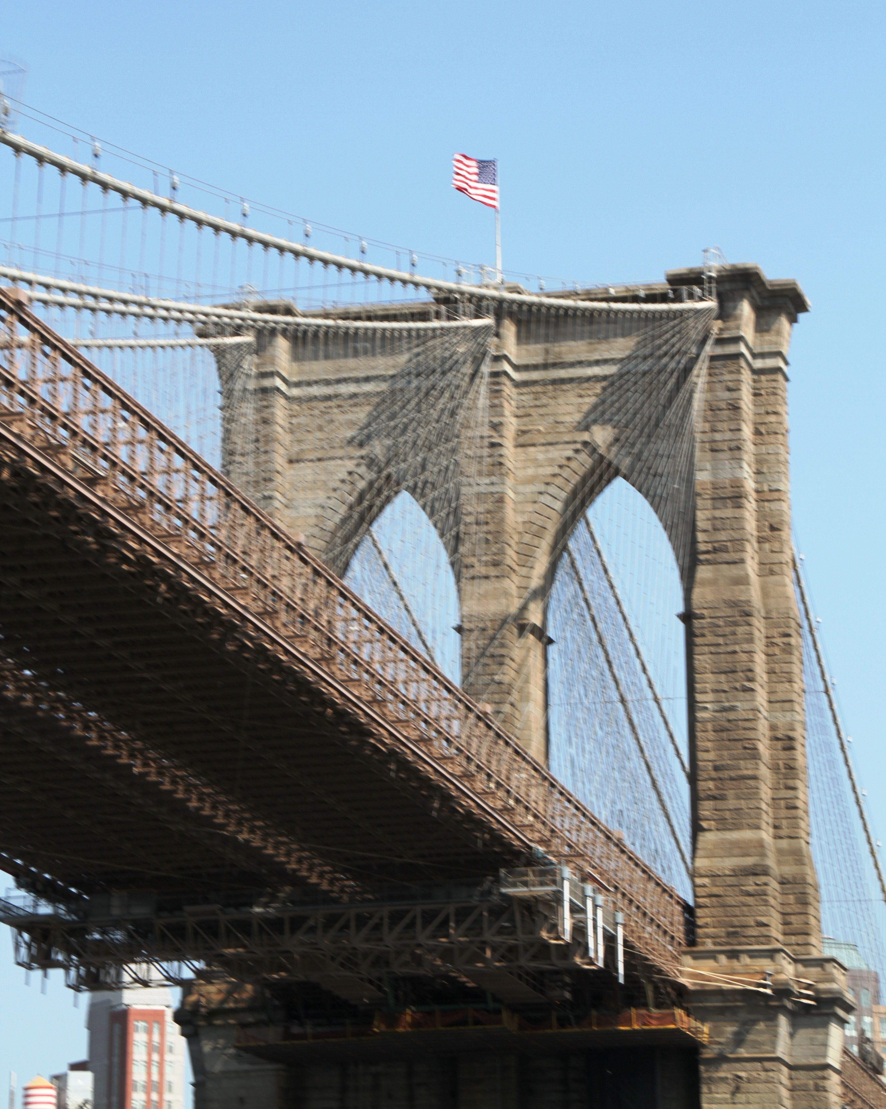 Brooklyn Bridge, New York City